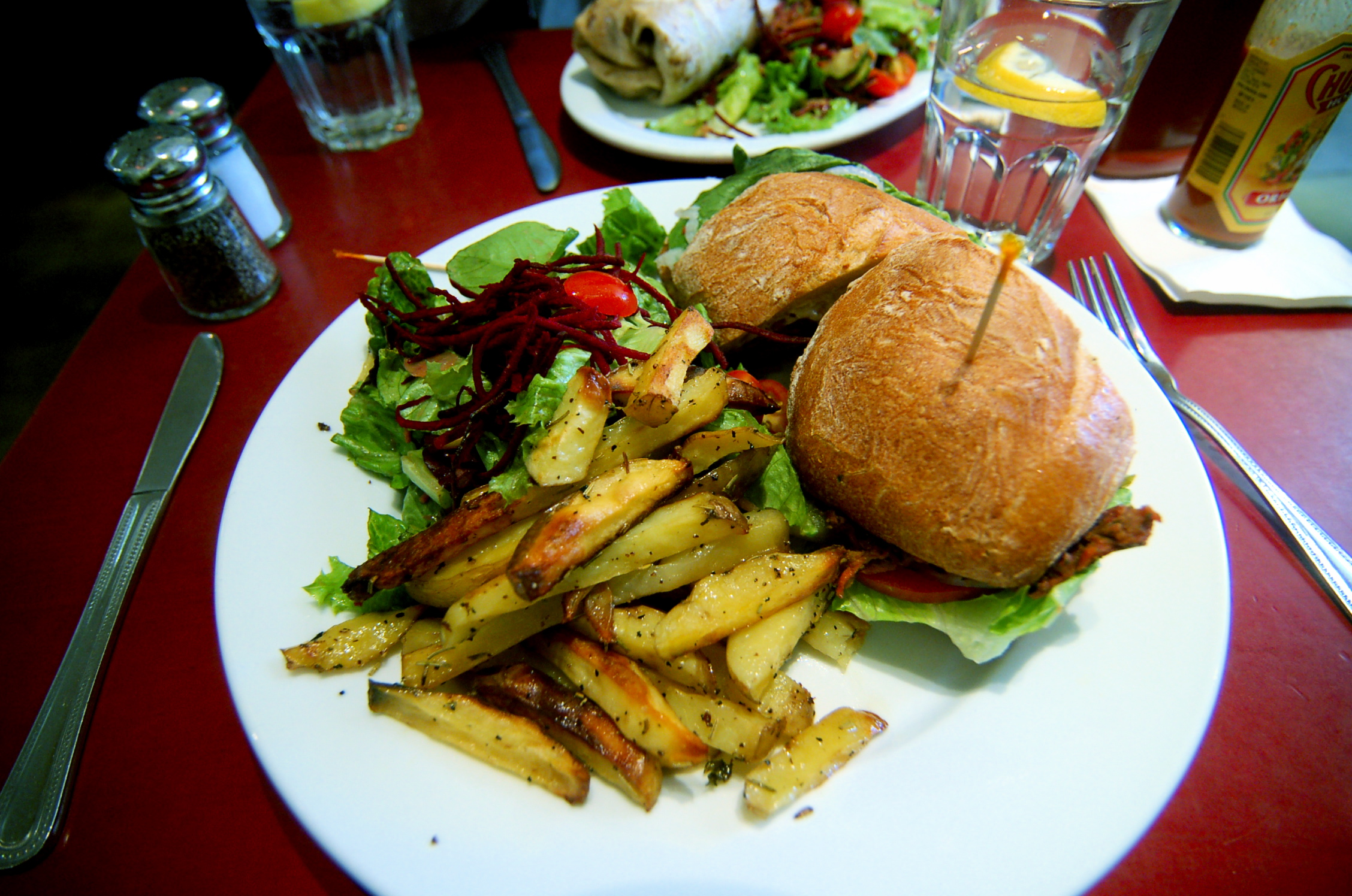 Amazing veggie burger at Herbivore.